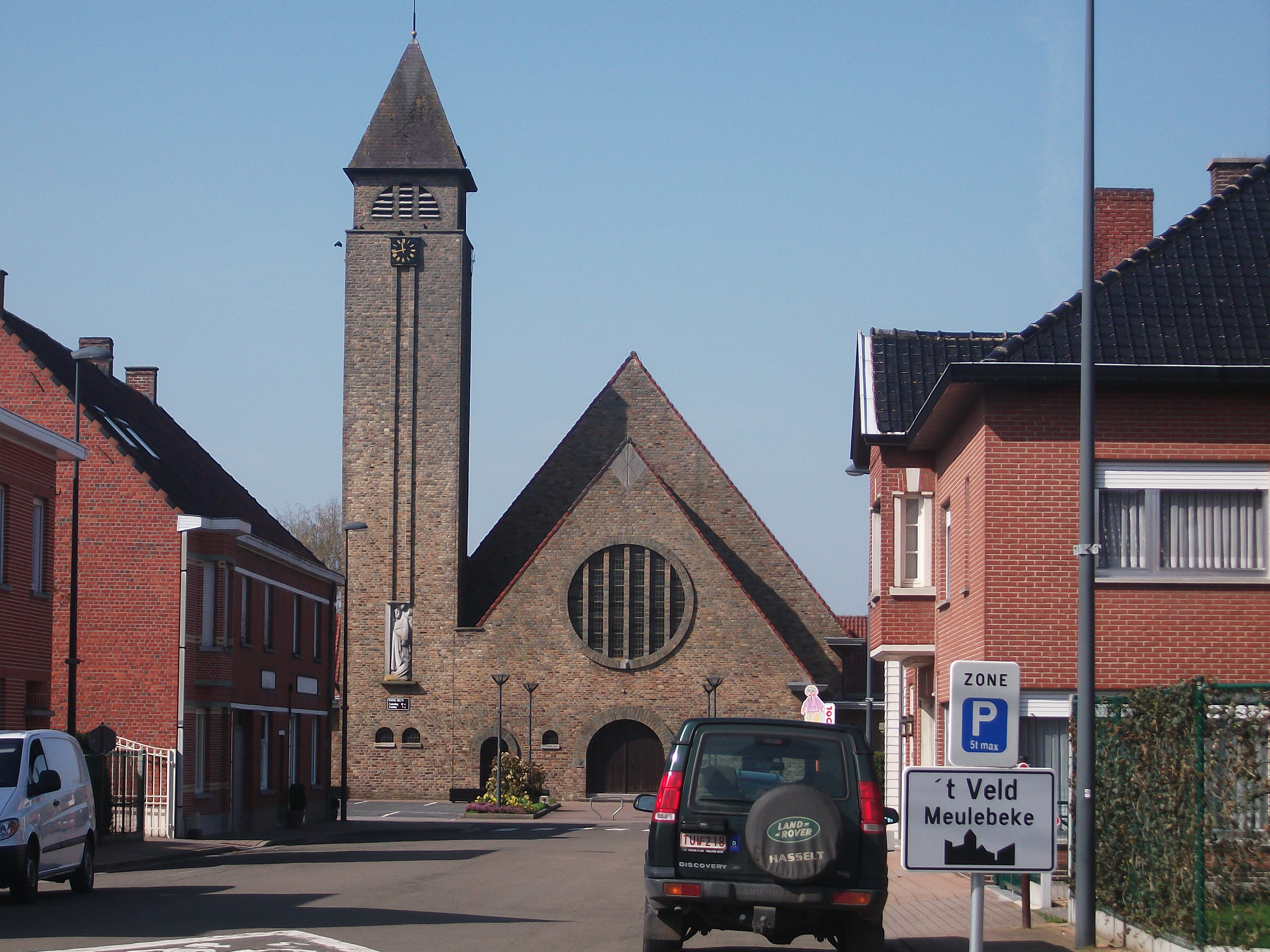 Saint-Anthony of Padua-church in 't Veld, Meulebeke, West-Flanders, Belgium.